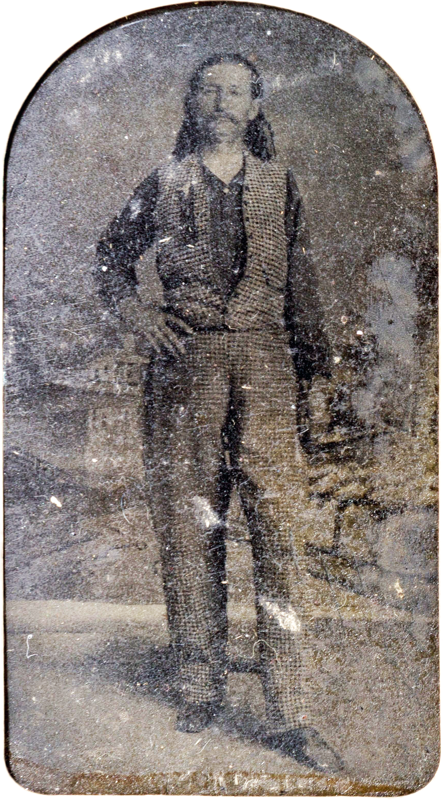 tintype image showing a full-standing view of James B. "Wild Bill" Hickok